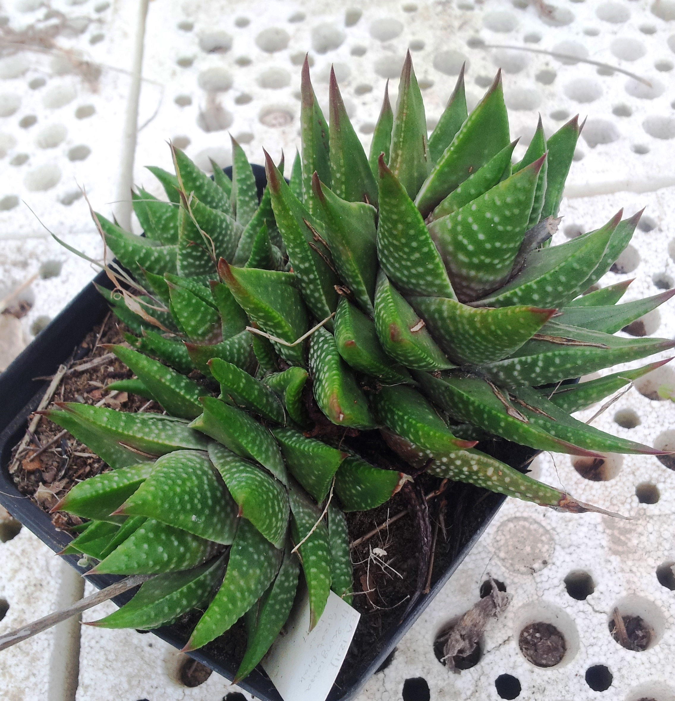 Tulista kingiana in cultivation - Cape Town